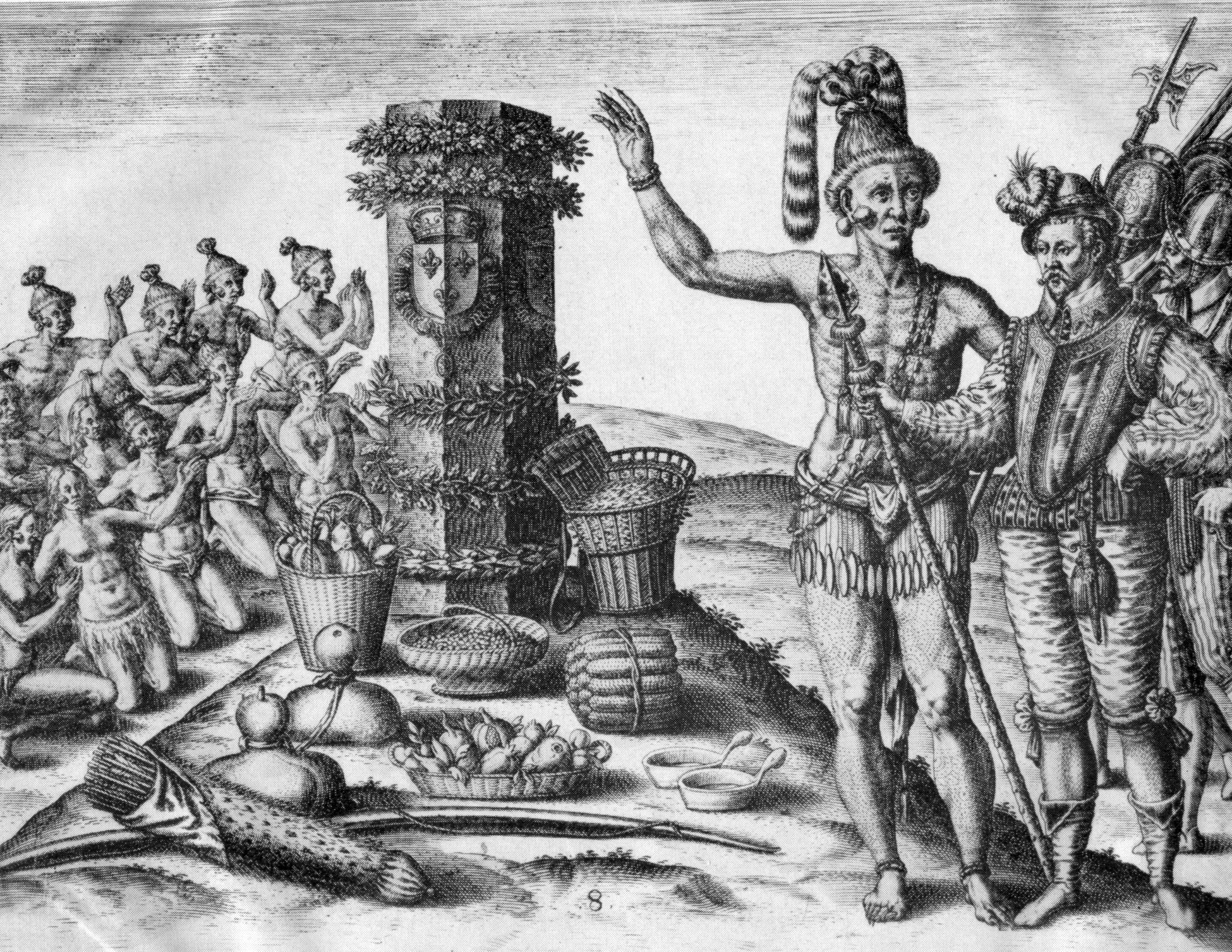 "FLORIDA INDIANS WORSHIPING A COLUMN. From an engraving after Jacques Le Moyne de Morgues, published by Theodore de Bry (Brevis Narratio, Frankfort, 1591). The column was set up by the French in 1562 as a symbol of royal authority in Florida. The indians considered it a god."